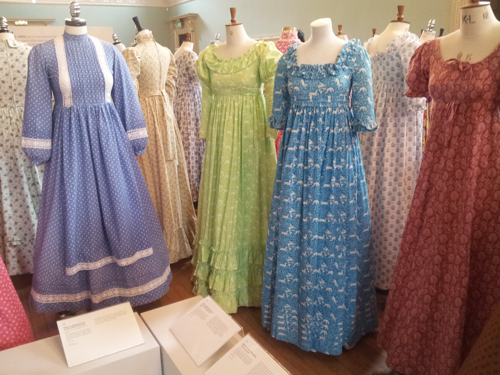 Printed cotton dresses made by Laura Ashley in the mid 1970s, on display at the Fashion Museum, Bath, 2013. Visitors to the exhibition were explicitly encouraged to take photographs for digital sharing.